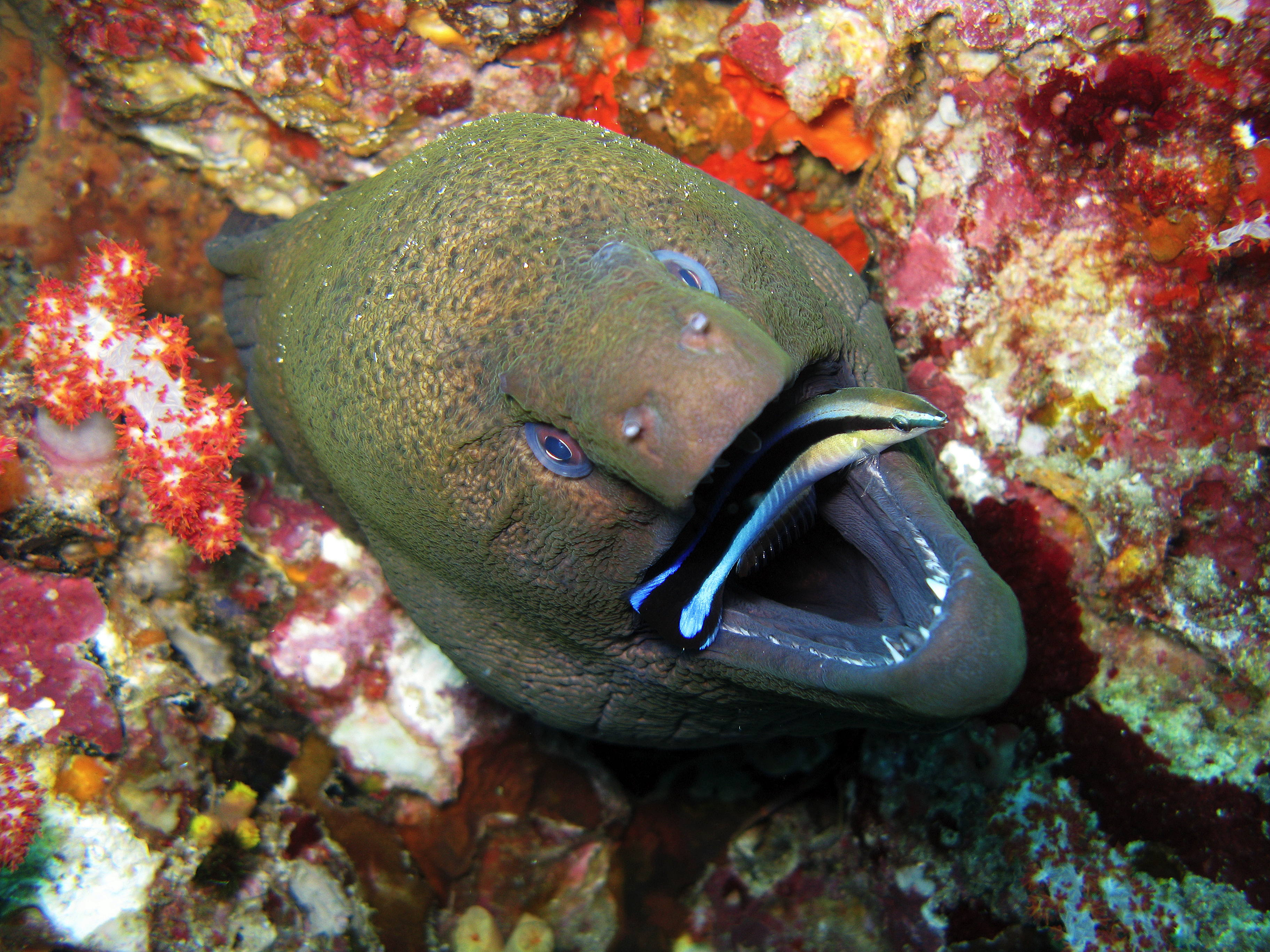 Thailand Andaman Sea February 2008